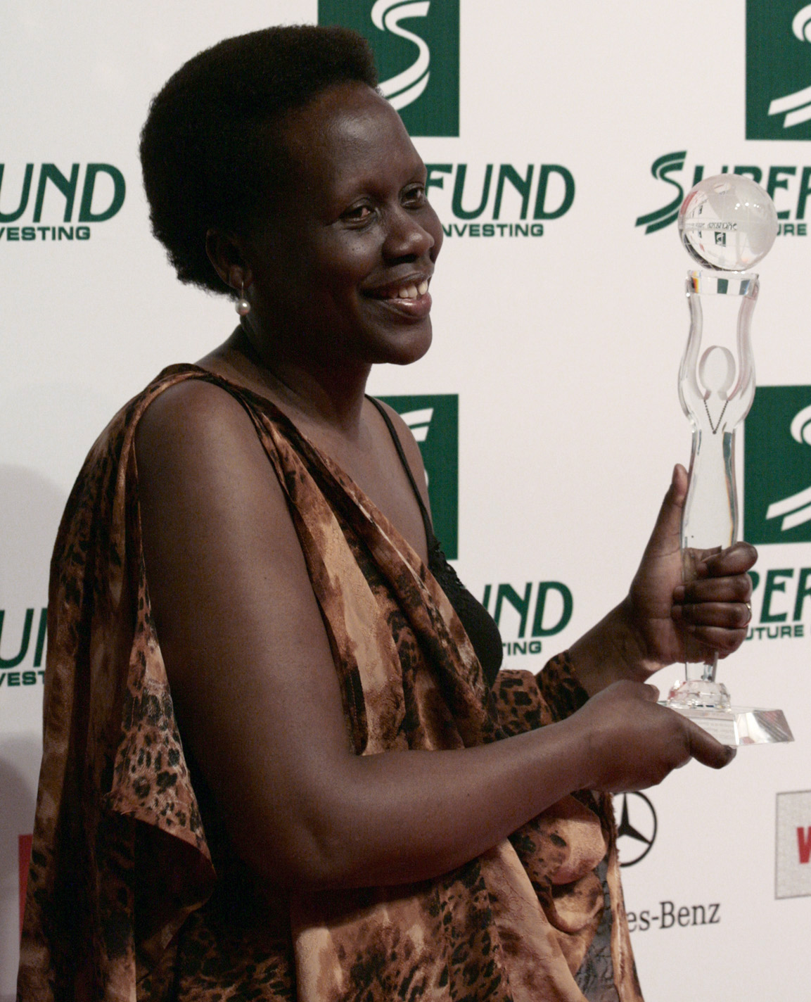 Esther Mujawayo at the Women's World Award 2009 (Wiener Stadthalle, Vienna, Austria).